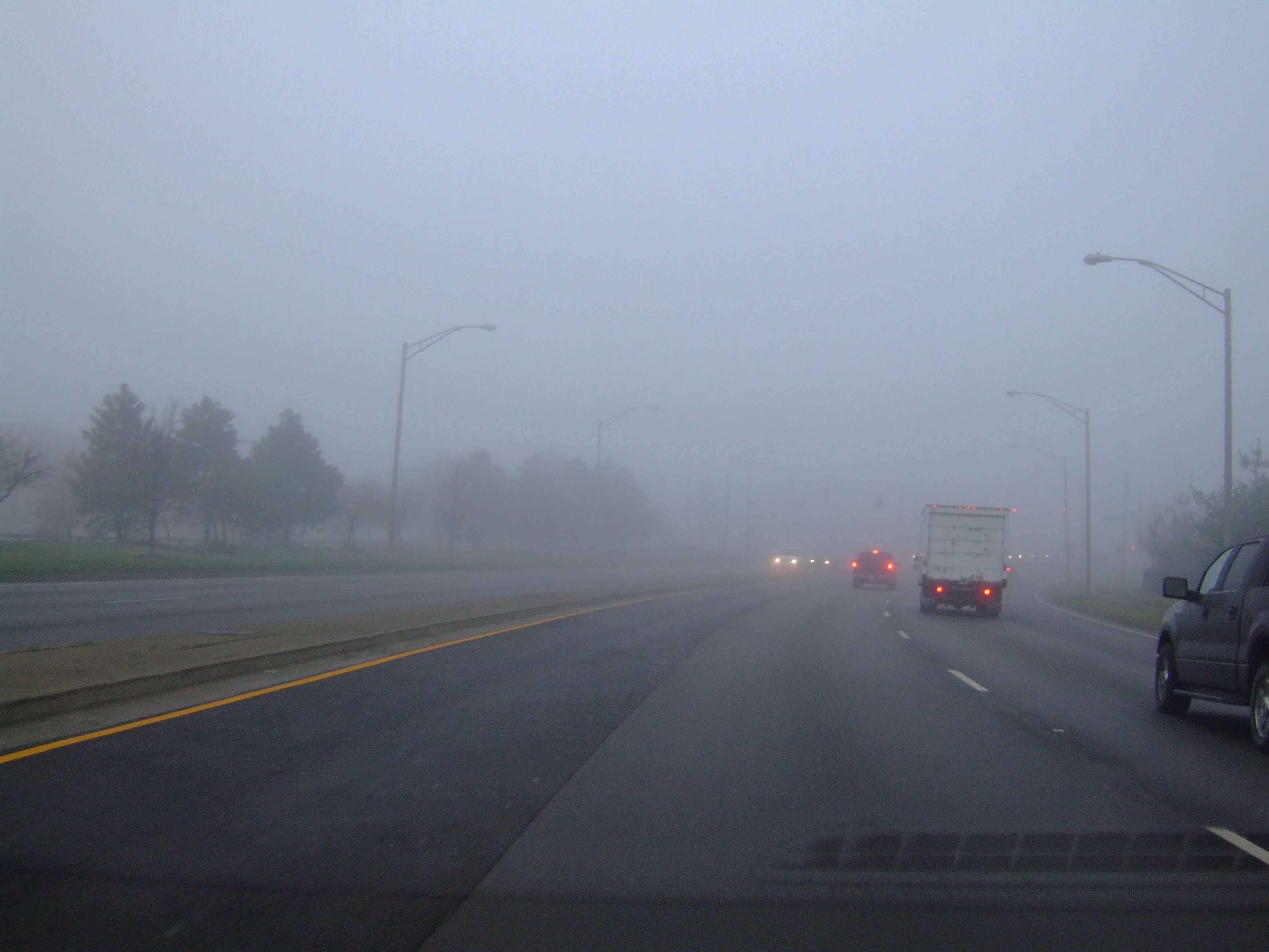 Man O War Blvd in Lexington Kentucky. Self made photo.